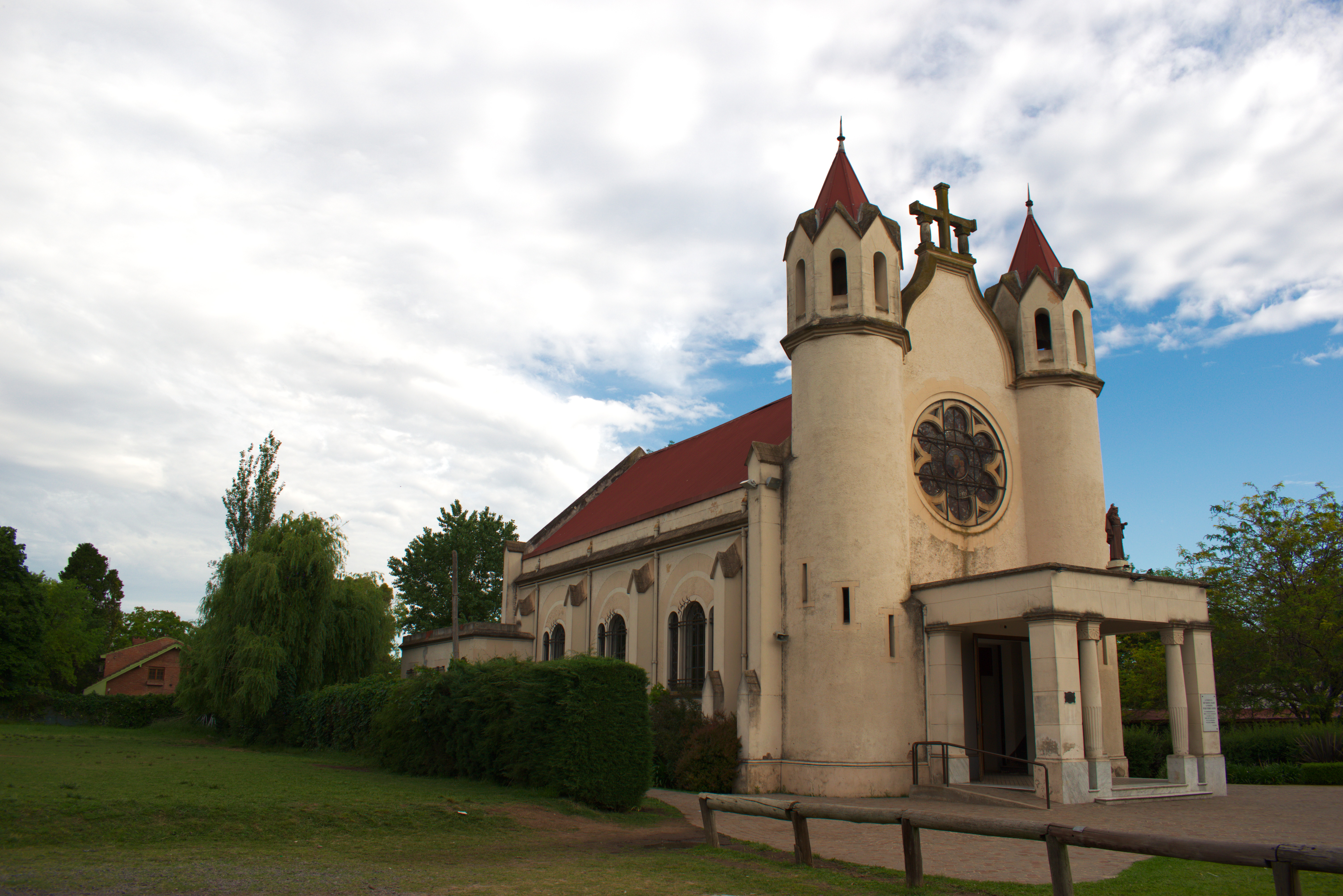 Church of St. Francis Solano on Bella Vista, Buenos Aires, Argentina